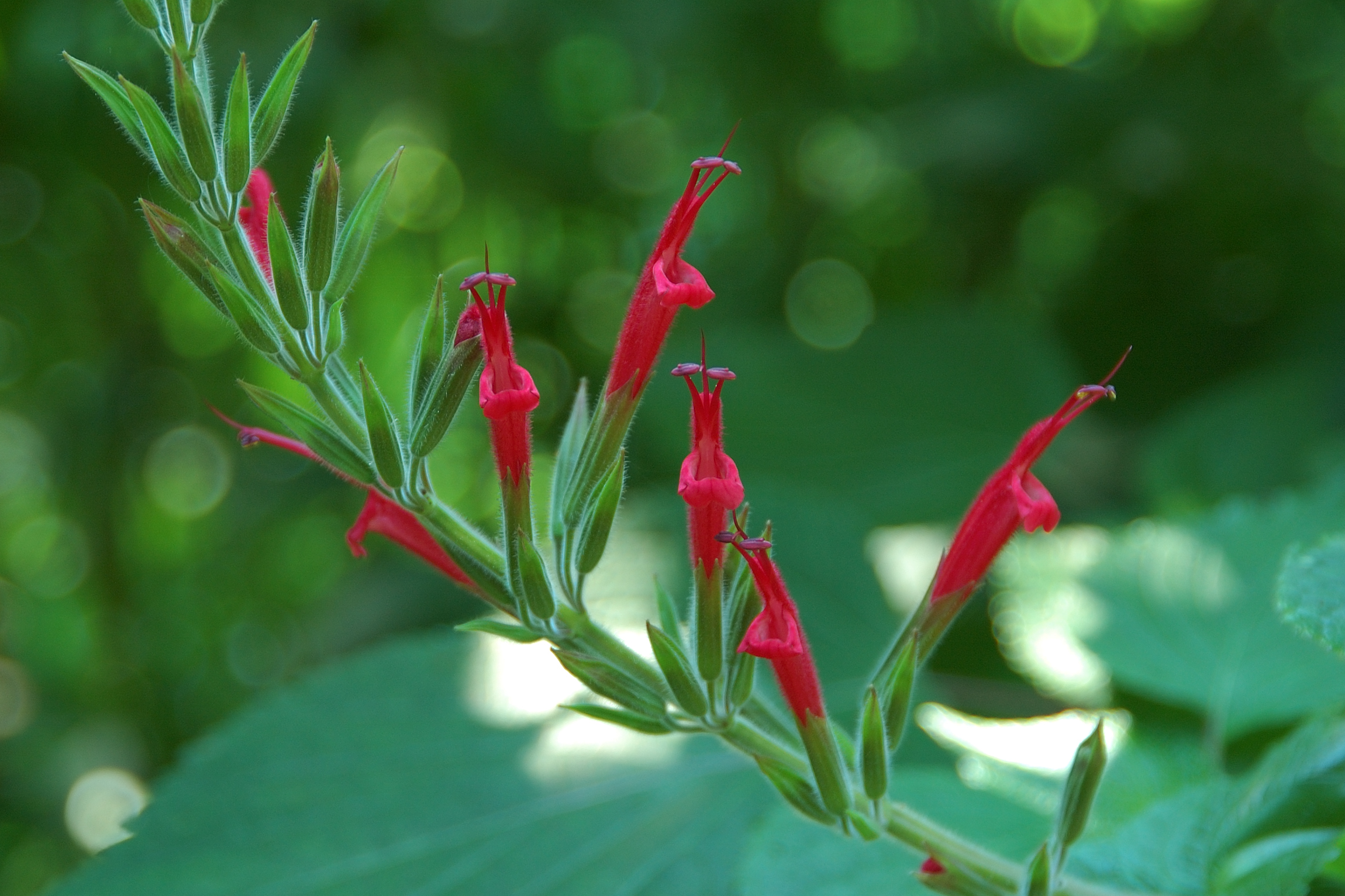 Salvia elegans, photographed at the San Francisco Botanical Garden at Strybing Arboretum